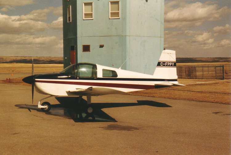 I took this photo of an American Aviation AA-1 Yankee (C-FPPY) at Springbank Airport in 1985